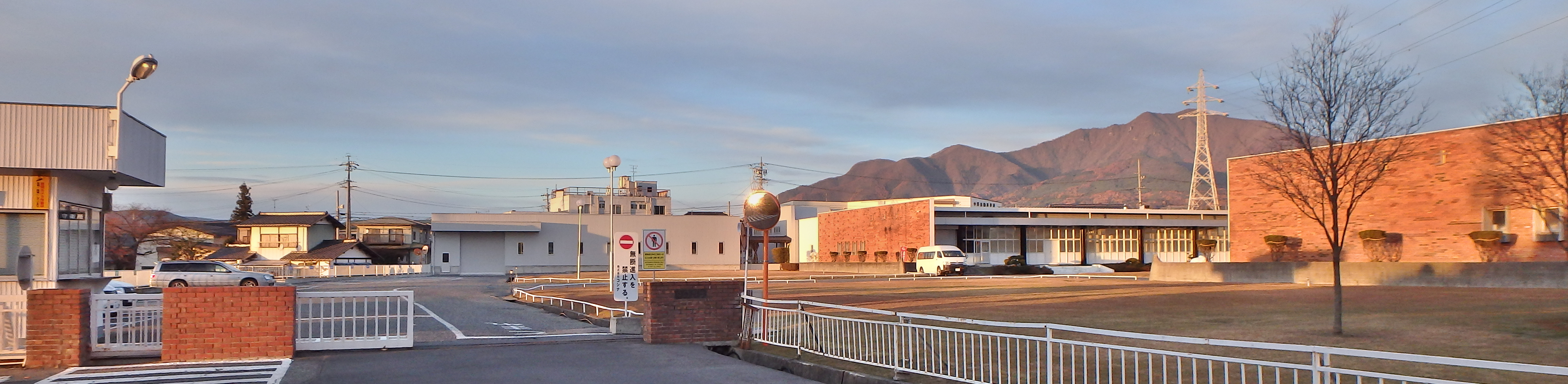 Headquarters of COSINA CO.,LTD., Nagano prefecture,Japan